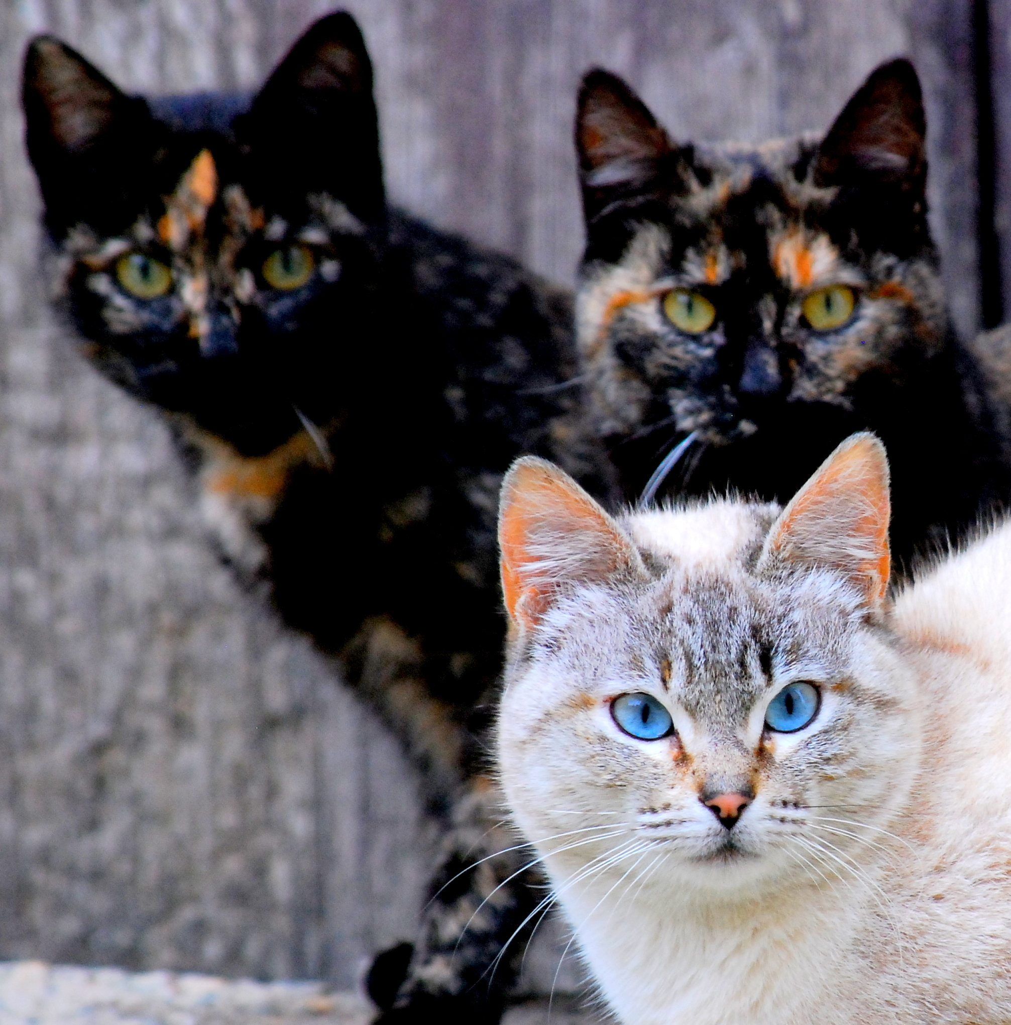 This is the message you see while visiting some of ours artists's pages in flickr...-unfortunately much more often that we should...- Well, finally I've found the place where the kittens are!!!! // Este es el mensaje que vemos mientras estamos visitando las páginas de algunos de nuestros artistas -lamentablemente más a menudo de lo que deberíamos... Bueno, finalmente encontré el sitio donde están los gatitos!!! and by the way, if you want the answer to the question on the previous pic on the photostream click HERE /// A propósito, si quieres conocer la respuesta a la pregunta en la foto anterior en mi photostream, pincha AQUI ...